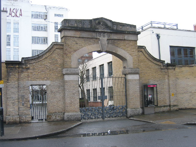 The Alaska Factory Gate, Bermondsey, SE1. The factory was opened in 1869 for the processing of the Alaskan furseal. The wall is all that remains of the original construction. The white building behind was erected I believe in the 1950s.